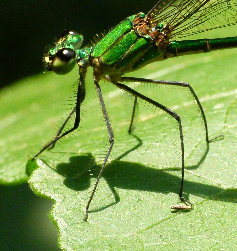 Legs of Vestalis gracilis, Wynaad, India